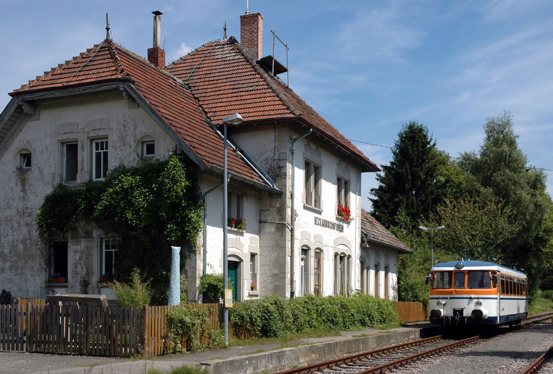 MAN railbus on the Neckarbischofsheim–Hüffenhardt railway at starting point Neckarbischofsheim Nord. train number SWE 70774.